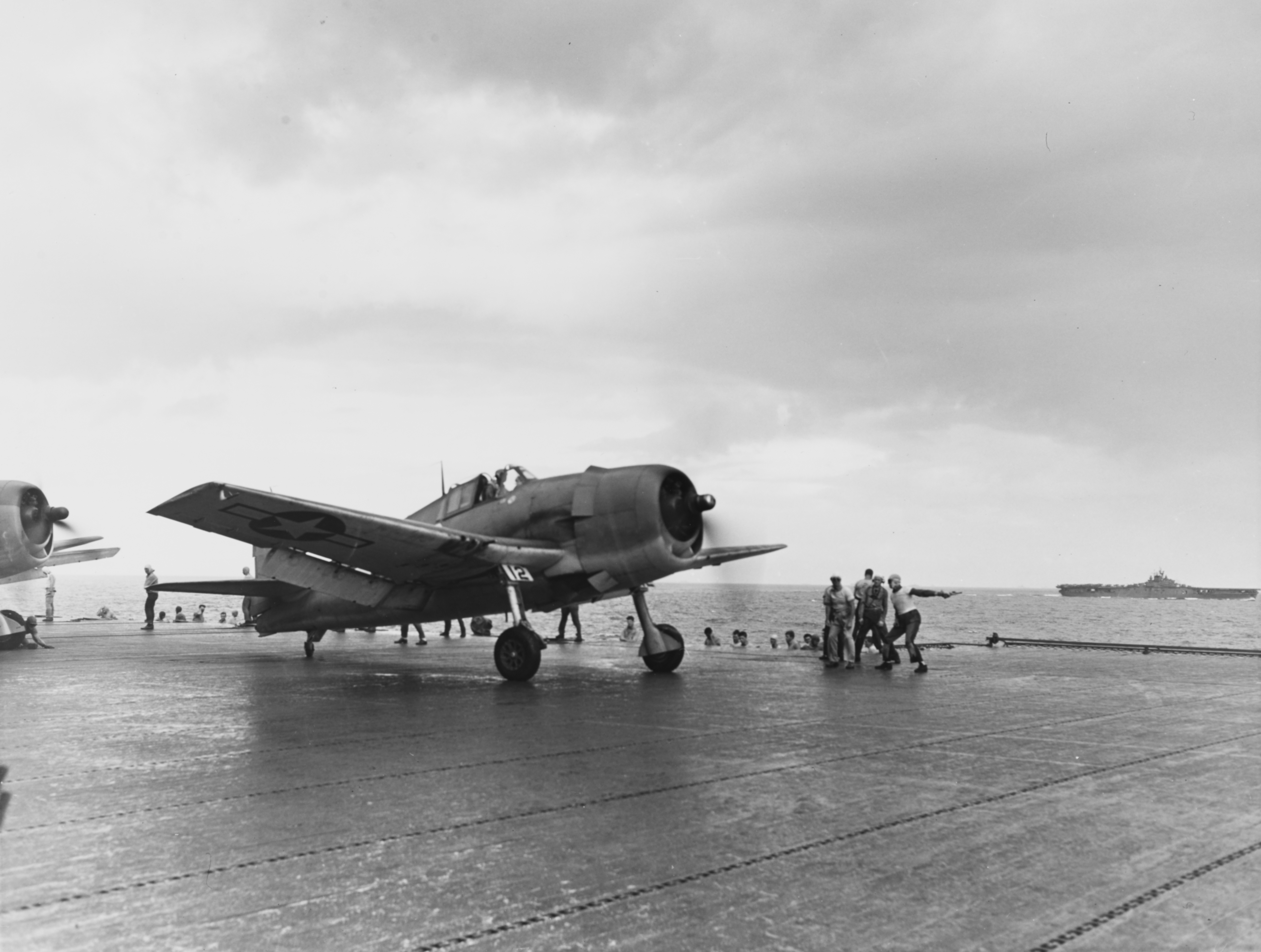 A U.S. Navy Grumman F6F-3 Hellcat from Fighting Squadron 9 (VF-9) is given the go-ahead for takeoff from the aircraft carrier USS Essex (CV-9) on the first day of "Operation Hailstone". As Essex was assigned to Task Group 58.2, the other Essex-class carrier in the background is USS Intrepid (CV-11).